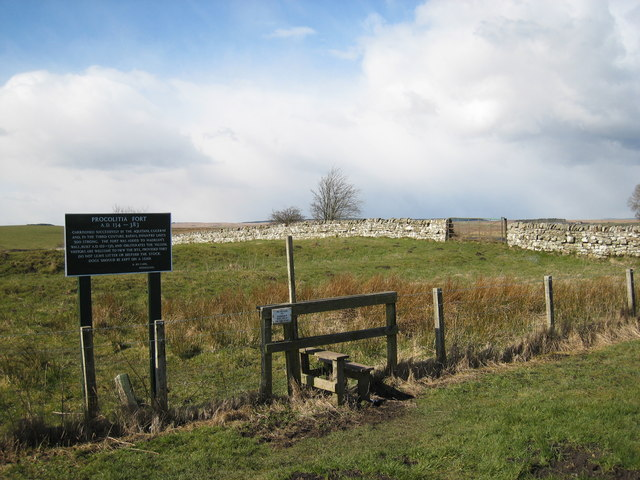 Stile near Brocolitia Roman Fort This photograph shows a stile near the Brocolitia Roman Fort. The B6138 road that runs past Housteads towards Chollerford lies just beyond the gate in the right-hand side of the picture. The photograph was taken from the car park looking in a westerly direction.